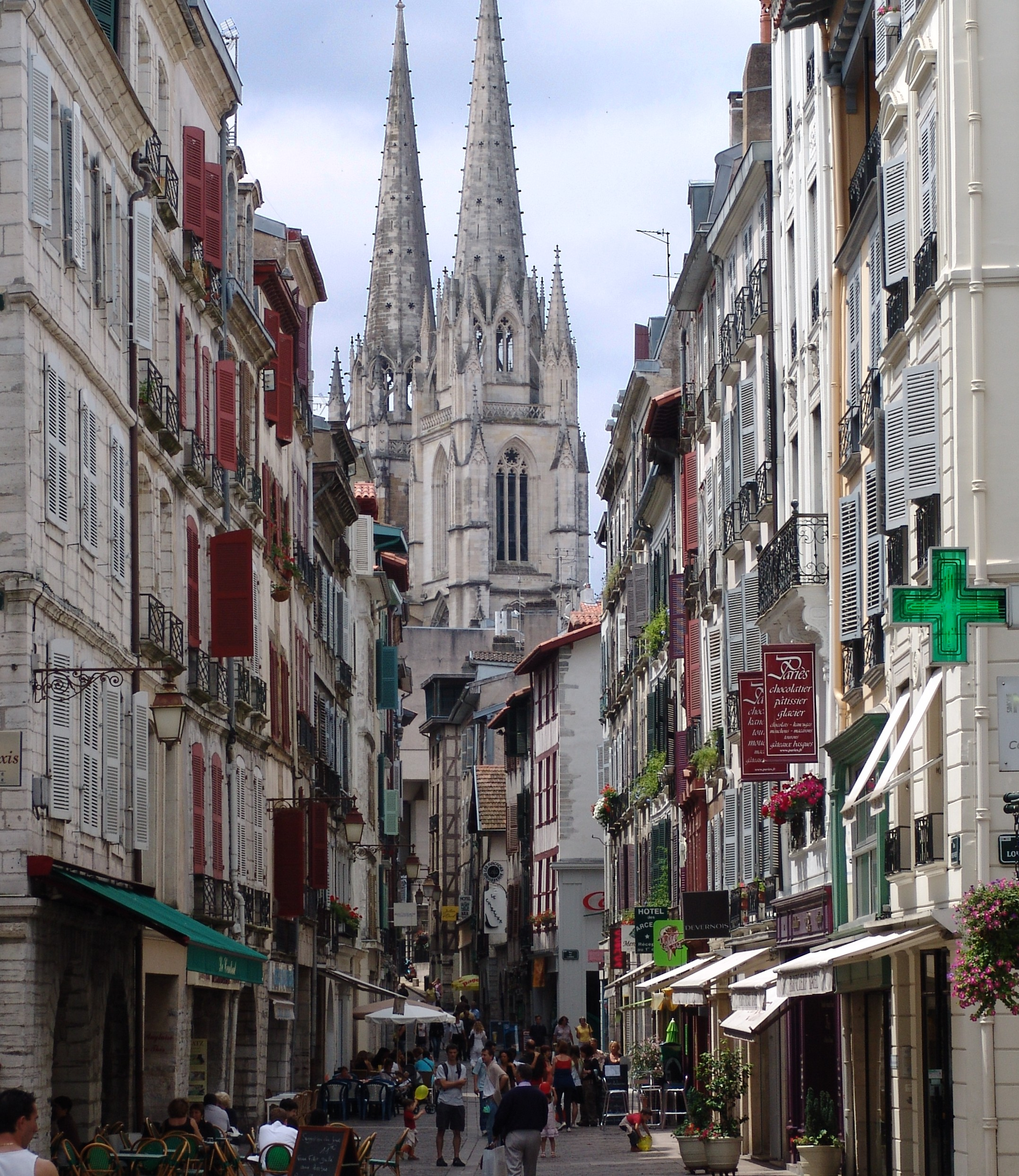 The Cathedral of Bayonne and Grand Bayone neighboordhooh street. Labourd, Basque Country.